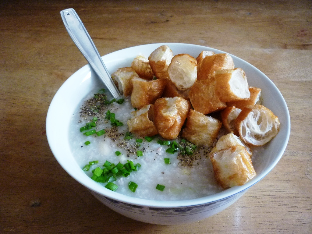 Congee with ground meat cooked with white beans, peas and fresh corn, served with Youtiao.